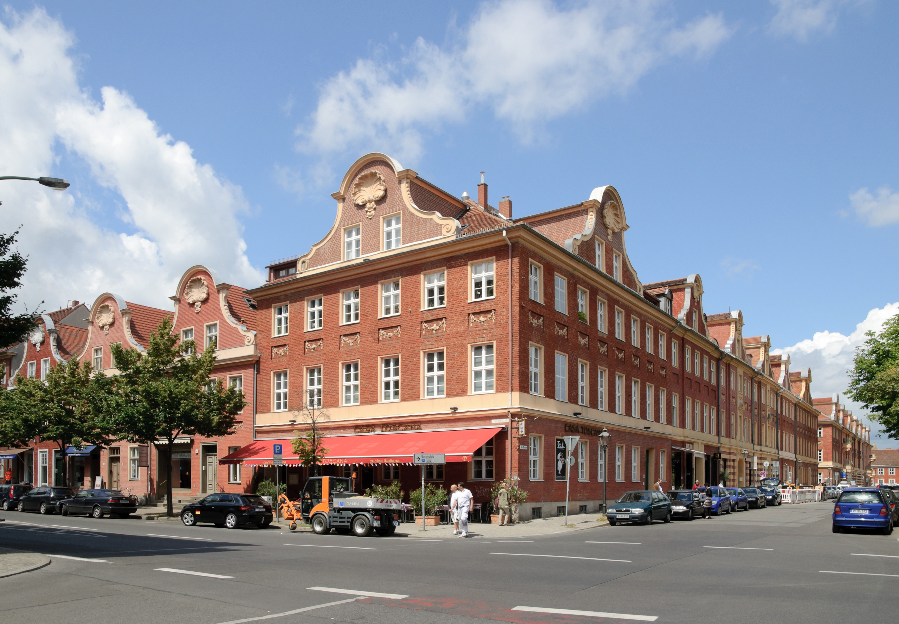 Residental buildings at Am Bassin street in Potsdam, Germany.